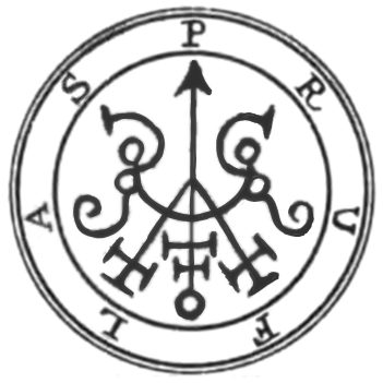 This is a sigil for the Demon Pruflas. It is not from any grimoire or historical source. It was created in 2019 by Frater V.I.M. and he releases it into the public domain for anyone to use.